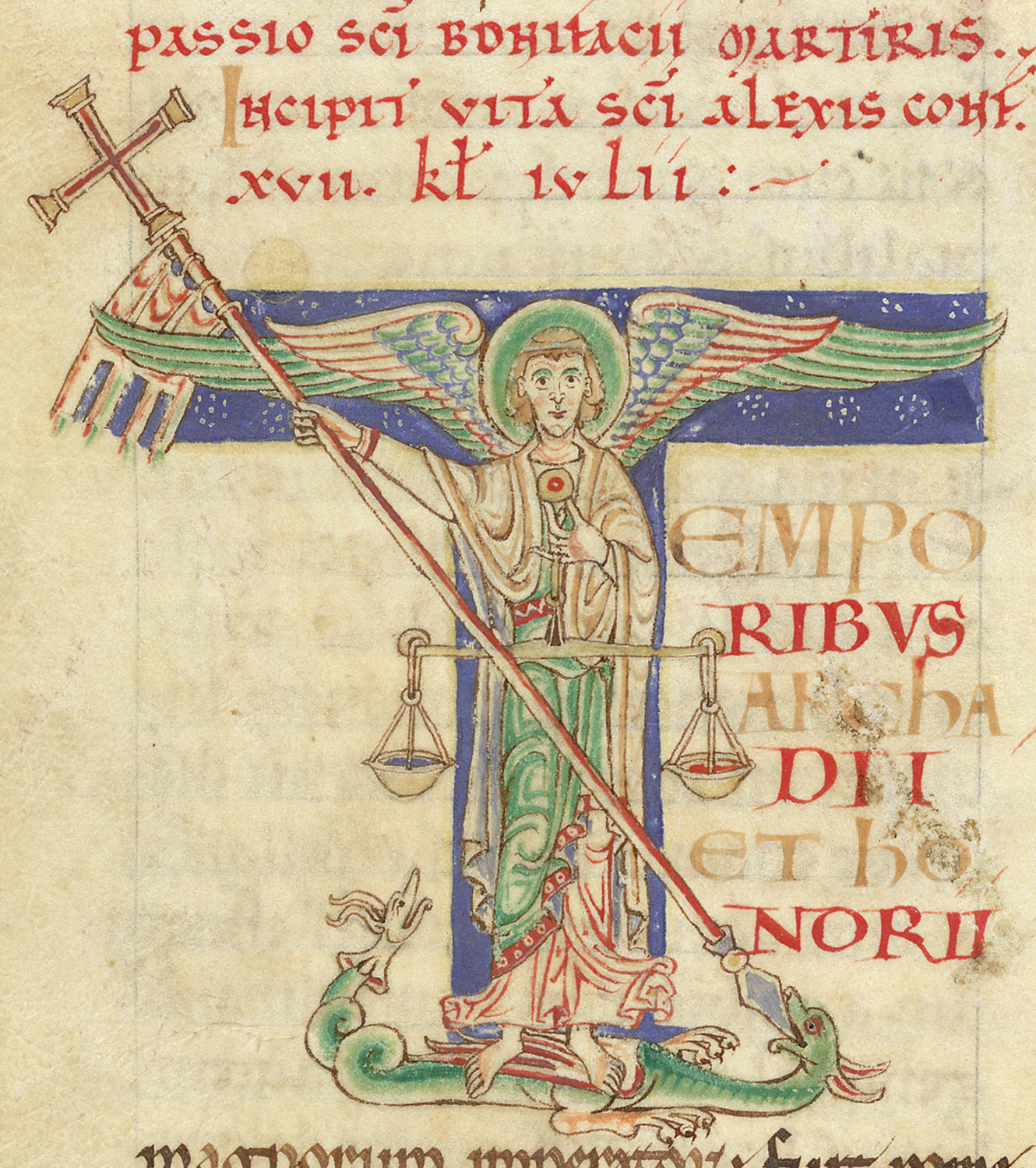 An historiated initial 'T' (of the word temporibus) with Michael the Archangel, who holds the scales to weigh the souls at the Last Judgement and spears a dragon below his feet. From the Passionale (Lives of the Saints), the rubrication notes it is at “the beginning on the life of St Alexius the Confessor, [celebrated on] the 17th calends of July [= 15 June]” – an error? His feast day, 17 July, is actually the 16th calends of August (XVI Kal. Aug.).